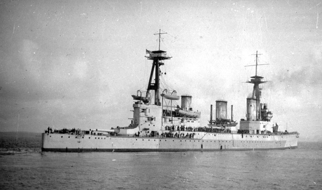 British battlecruiser HMS INDEFATIGABLE underway in coastal waters just before the Battle of Jutland.